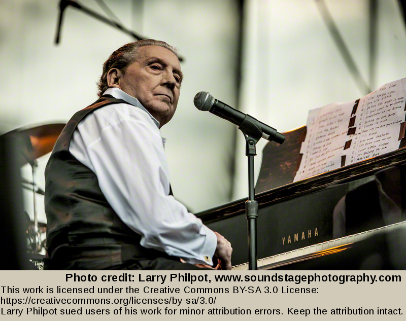 Jerry Lee Lewis performs in Memphis